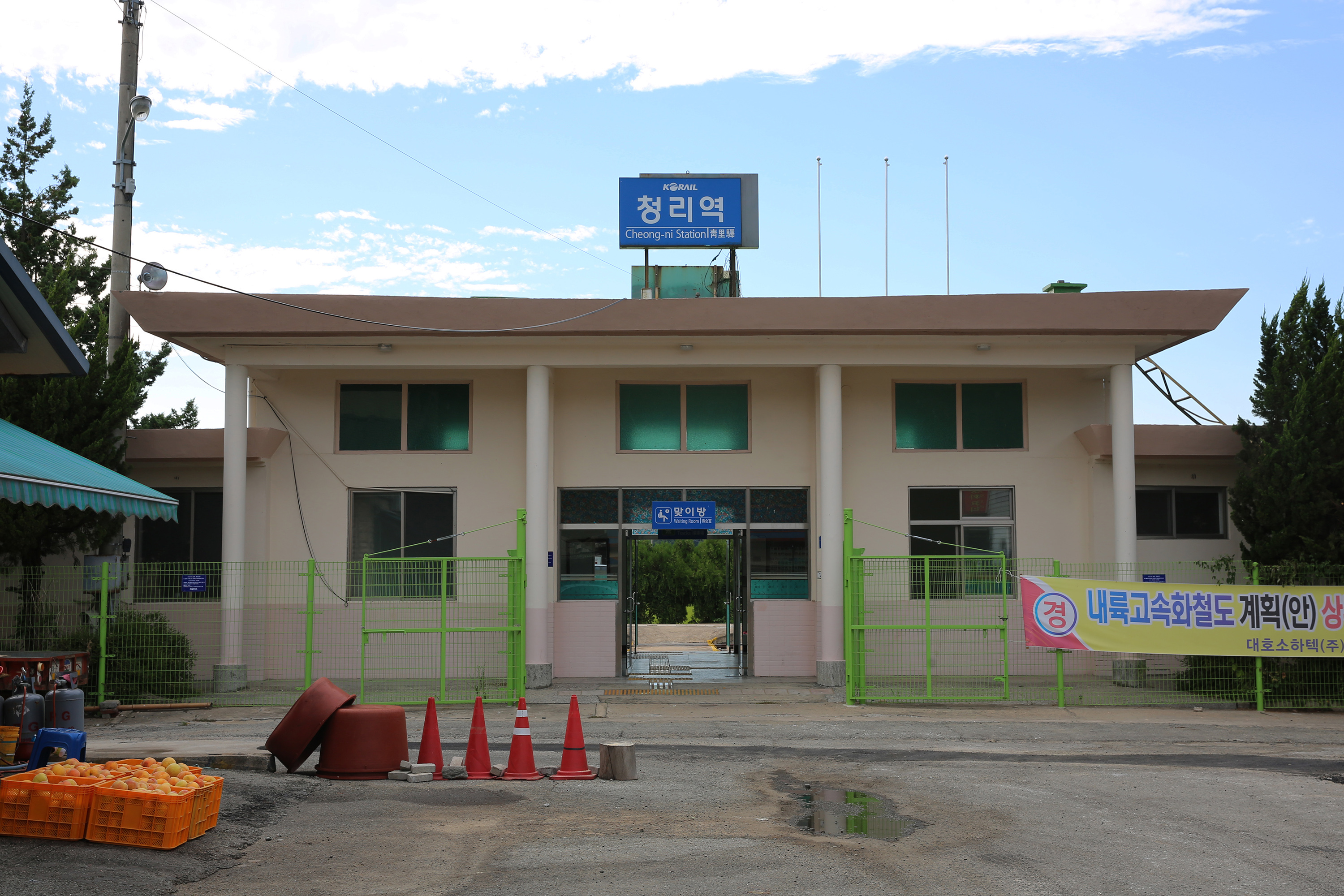 Obverse of Building from the Square of Cheongni Station